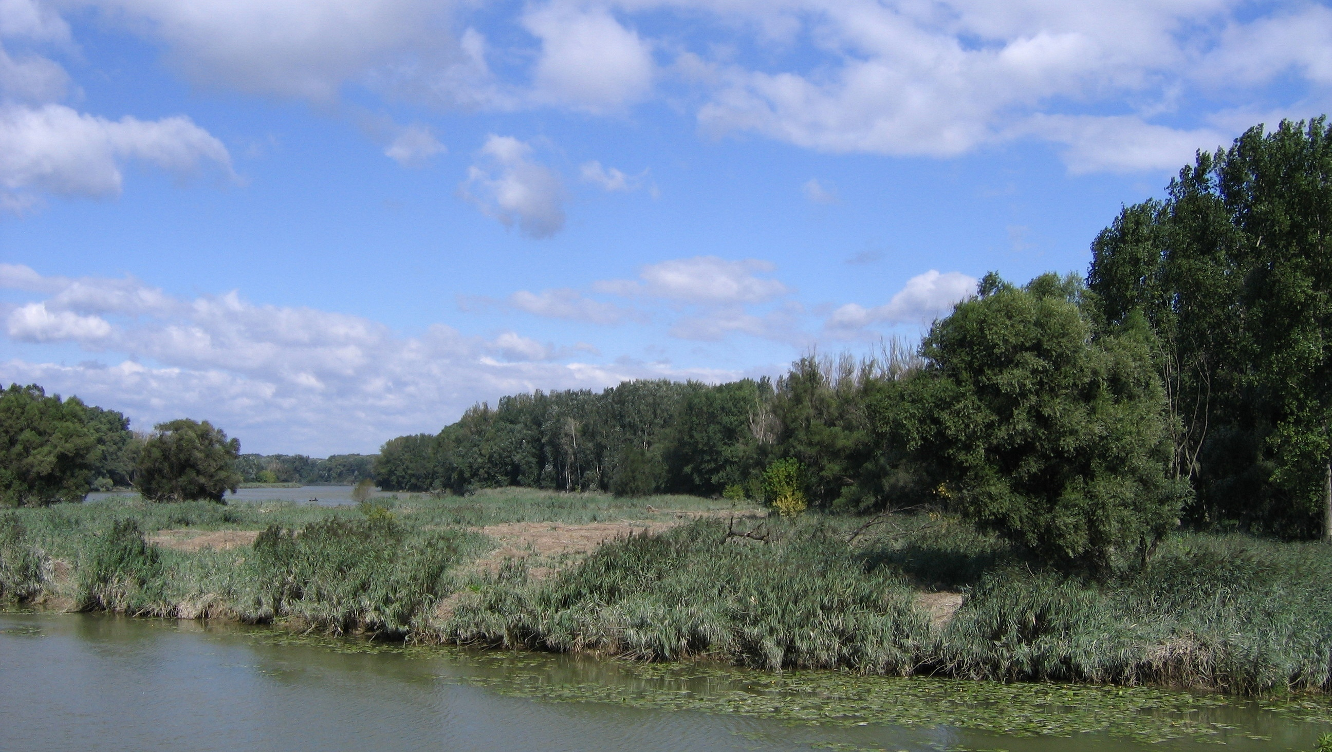 riverside woodland near Vienna, Austria